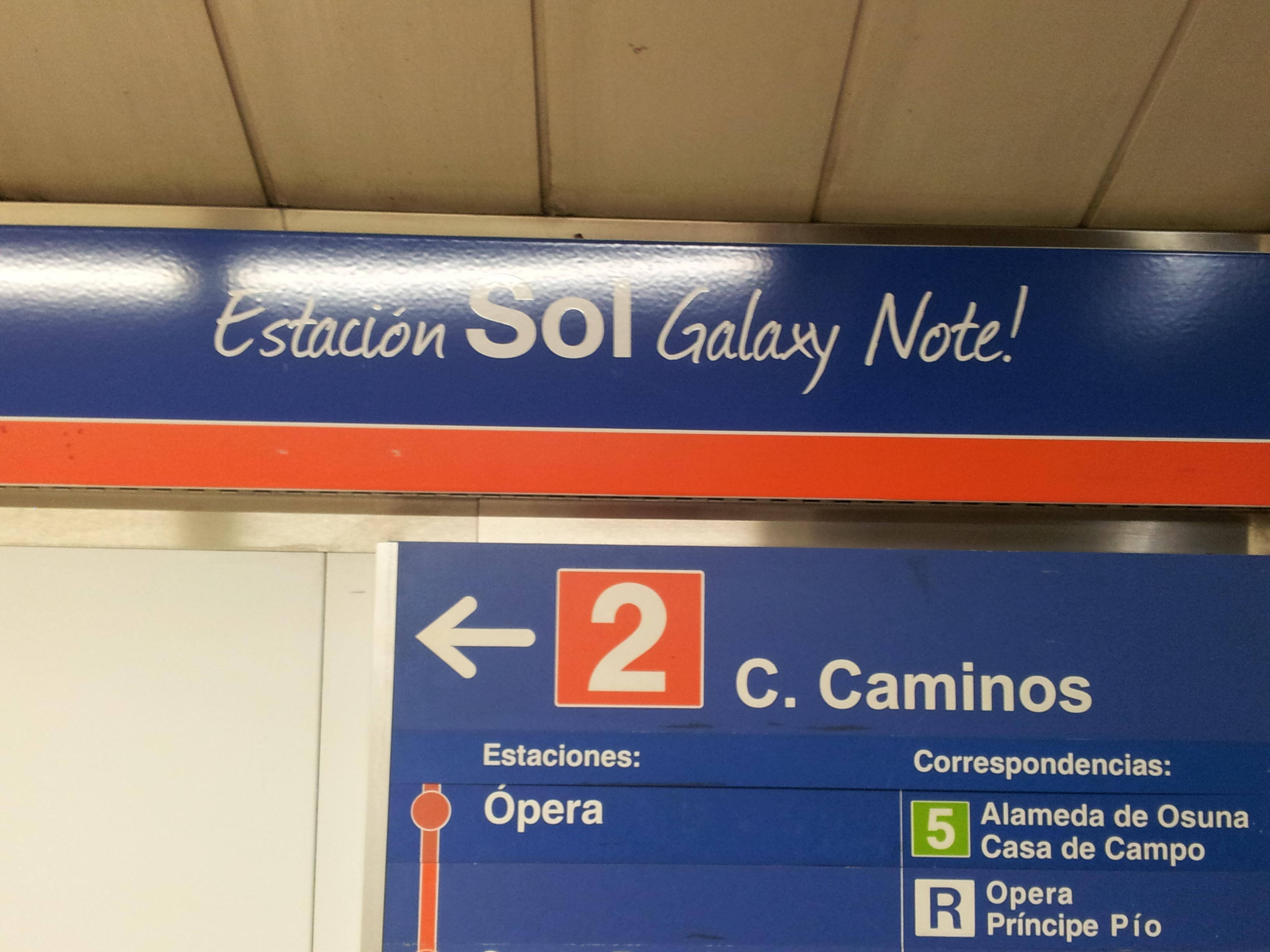 Sol station renamed Estación Sol Galaxy Note on the 13th of March, 2012